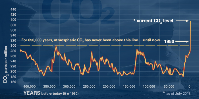 This plots atmospheric CO2 concentration synthesizing ice core proxy data 650,000 years in the past capped by modern direct measurements.